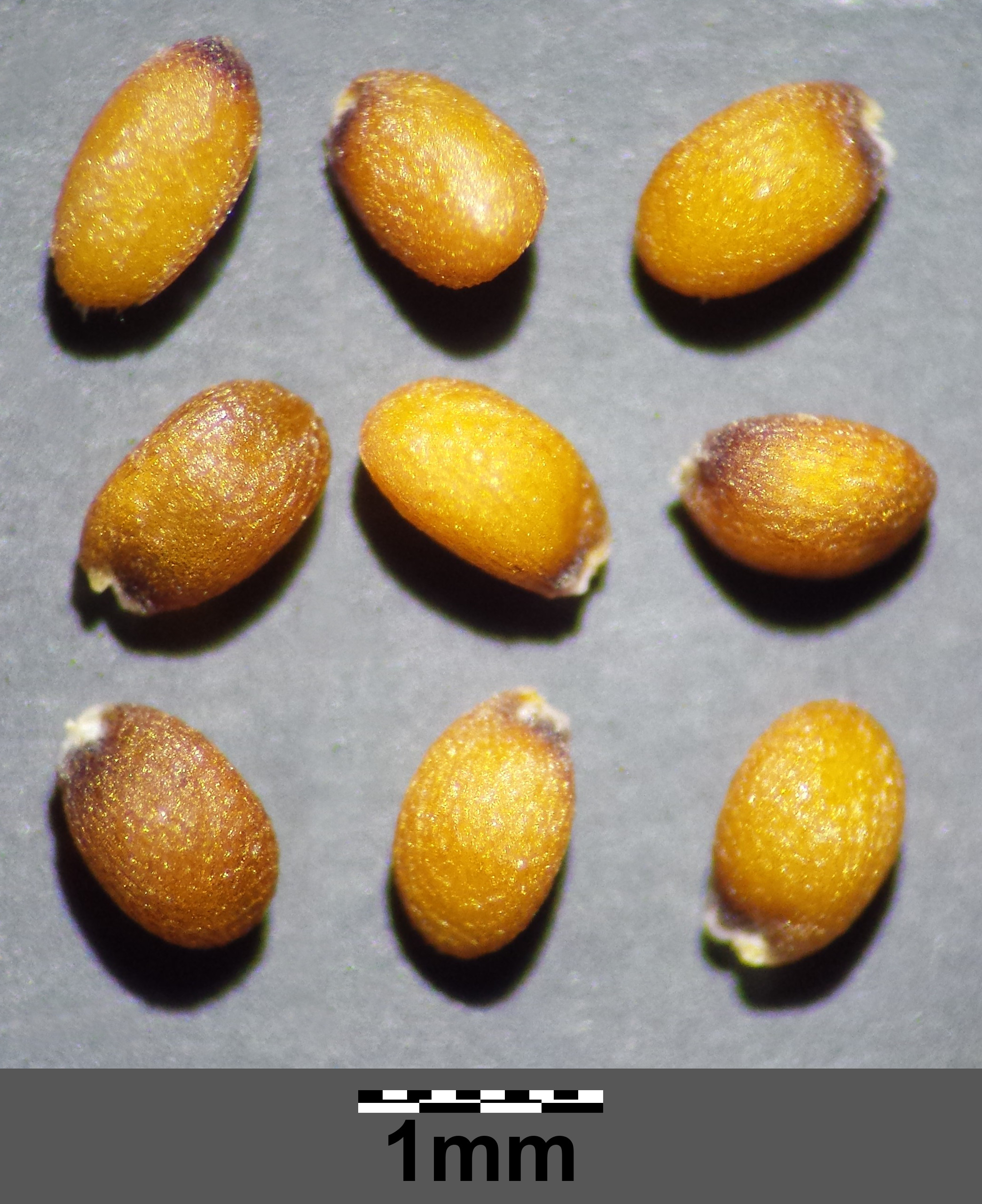 Seeds Taxonym: Erucastrum nasturtiifolium ss Fischer et al. EfÖLS 2008 ISBN 978-3-85474-187-9 Location: Neue Donau, district Korneuburg, Lower Austria - ca. 160 m a.s.l. (leg.: 2015-07-23) Habitat: ruderal meadows